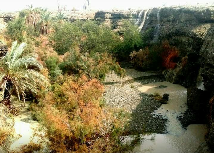 Water